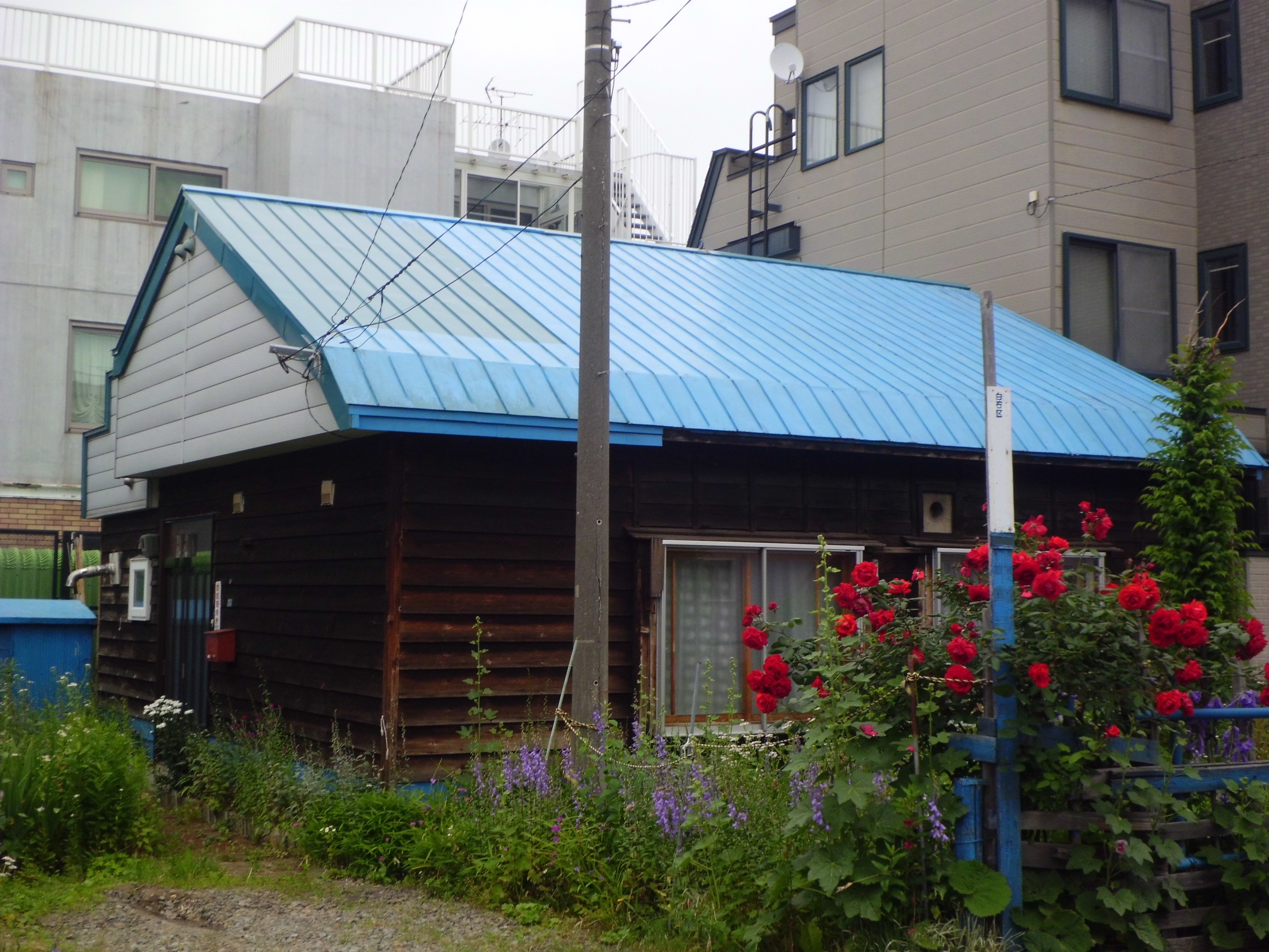 Former Army Official Residence in Shiroishi